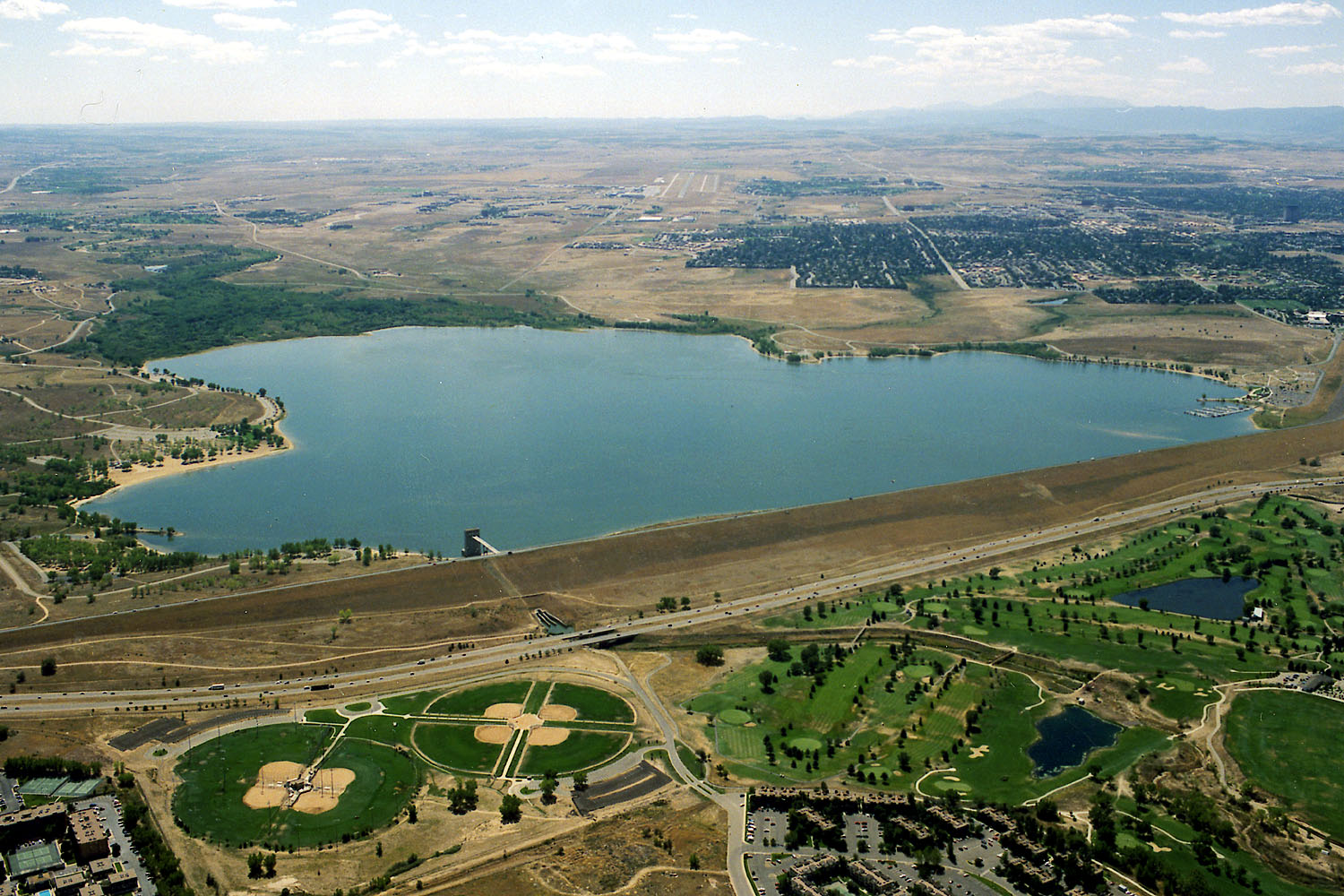 Cherry Creek Dam and Reservoir (Cherry Creek Lake) in Arapahoe County, Colorado, USA. The dam was constructed by the U.S. Army Corps of Engineers and completed in 1950. The view is looking south across the dam and reservoir.